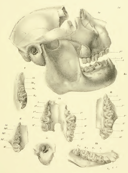 Original caption: Hadropithecus stenognathus Lz. Ia. Schädel von der Seite. Das mittlere Stück des Jochbogens fehlt bei dem Exemplare auf der rechten Seite; dasselbe ist hier nach dem auf der linken Seite erhaltenen Bogen zwischen den beiden punktierten Bruchlinien eingezeichnet. Die vermuthliche Auftreibung der Stirne wird durch eine unterbrochene Linie angedeutet. Vom rechten C ist nur die leere Alveole erhalten. Ib. Zähne desselben Schädels in der Daraufsicht. Ic. Bulla schief von hinten mit Ansicht des nach unten frei in die Höhle ragenden Annulus tympanicus und des Abdruckes einer Abzweigung der Carotis an der hinteren Fläche. IIa. Rechter Unterkiefer eines anderen Individuums, das aber mit jenem, von dem der Schädel 1 stammt nahezu gleich alt war und daher in Verbindung mit diesem dargestellt ist. Die Rolle wurde hicbei nicht ganz genau in die Gelenksgrube eingepasst. Die Schneidezähne sind nach dem zuerst beschriebenen Originalexemplare in Contouren angedeutet. IIb. Zähne desselben Unterkiefers in der Daraufsicht; vom äußeren Schneidezahne ist die unterhalb der Krone abgebrochene Wurzel zu sehen, welche in stark schiefer Richtung in den Unterkiefer eindringt. III. Ein linker Oberkiefer mit anliegendem Gaumenbeine. IV. Rechtes Oberkieferstiick mit Milchbackenzähnen. V. Linkes Unterkieferstück, offenbar von demselben Individuum wie IV.